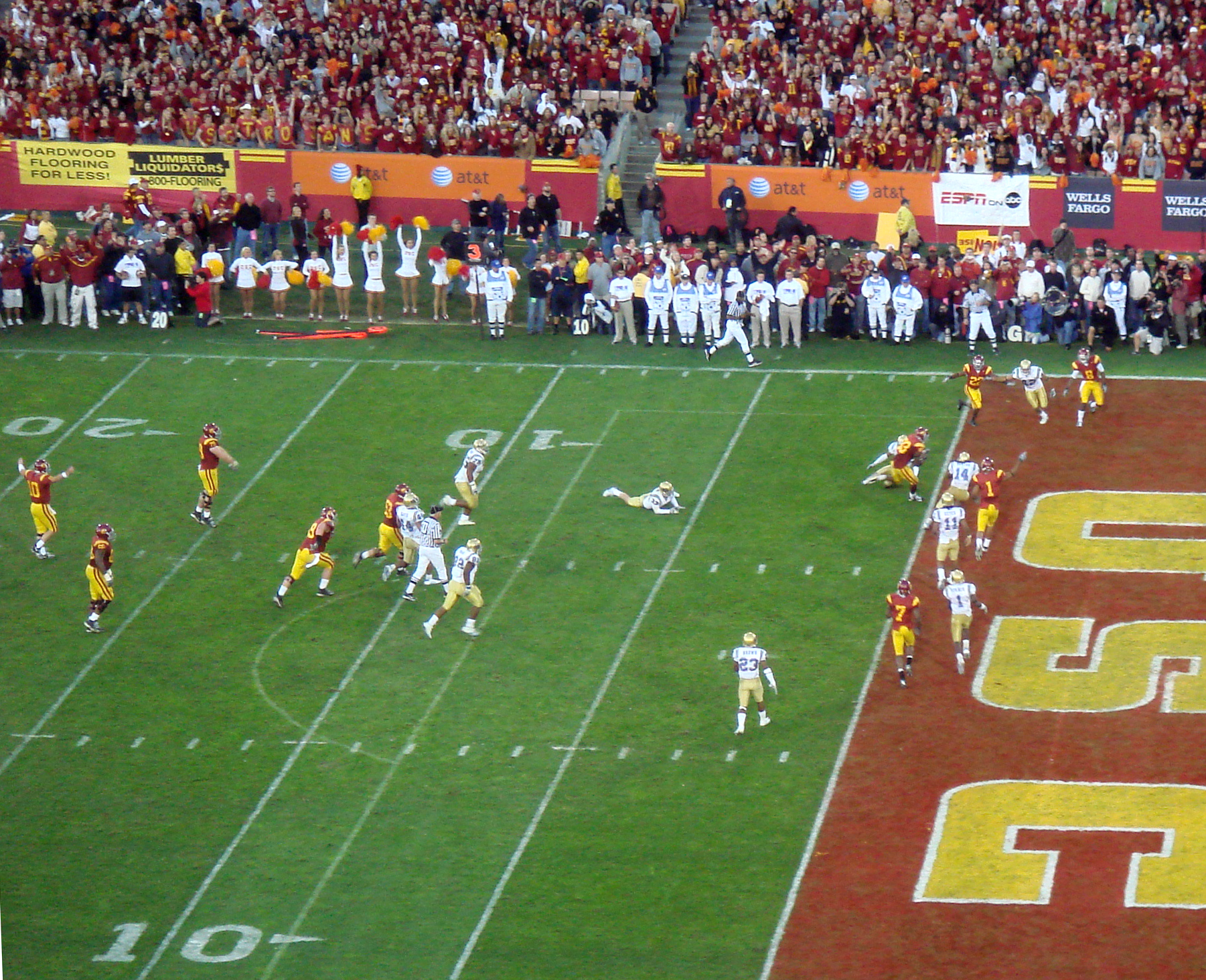 Fred Davis (#83, about to step into the end-zone) scores the final touchdown of the 2007 UCLA-USC rivalry game. The UCLA Bruins visit the USC Trojans at the L.A. Coliseum; USC would win, 24-7.